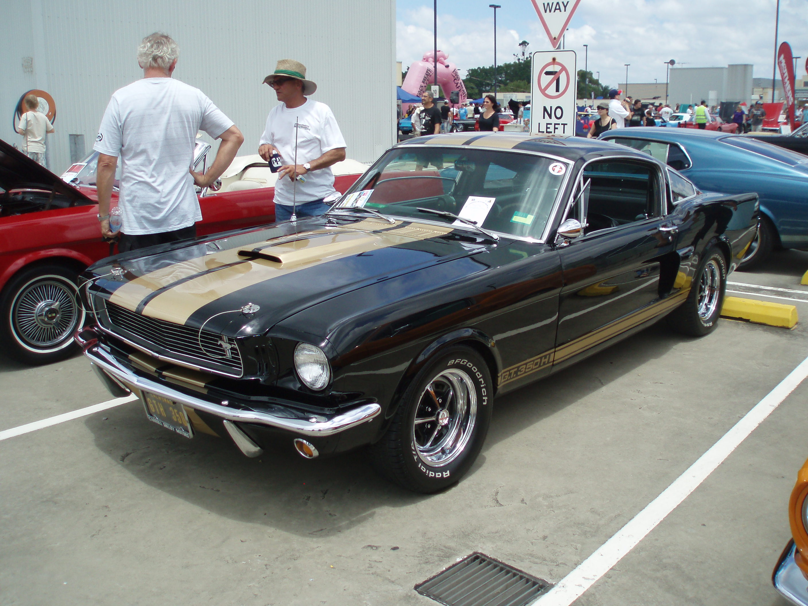 1966 Shelby GT 350H fastback coupe. Taken at the 2011 New South Wales All American Day, held at Castle Towers Shopping Centre, Castle Hill, Sydney.